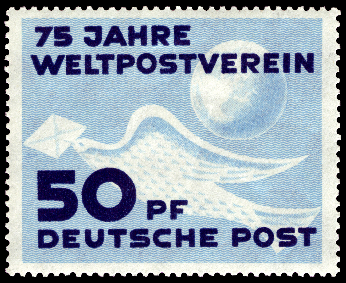 75 years of Universal Postal Union Graphic designer:Jacob und Weise Ausgabepreis: 50 Pf First Day of Issue / Erstausgabetag: 9. Oktober 1949 Michel-Katalog-Nr: 242